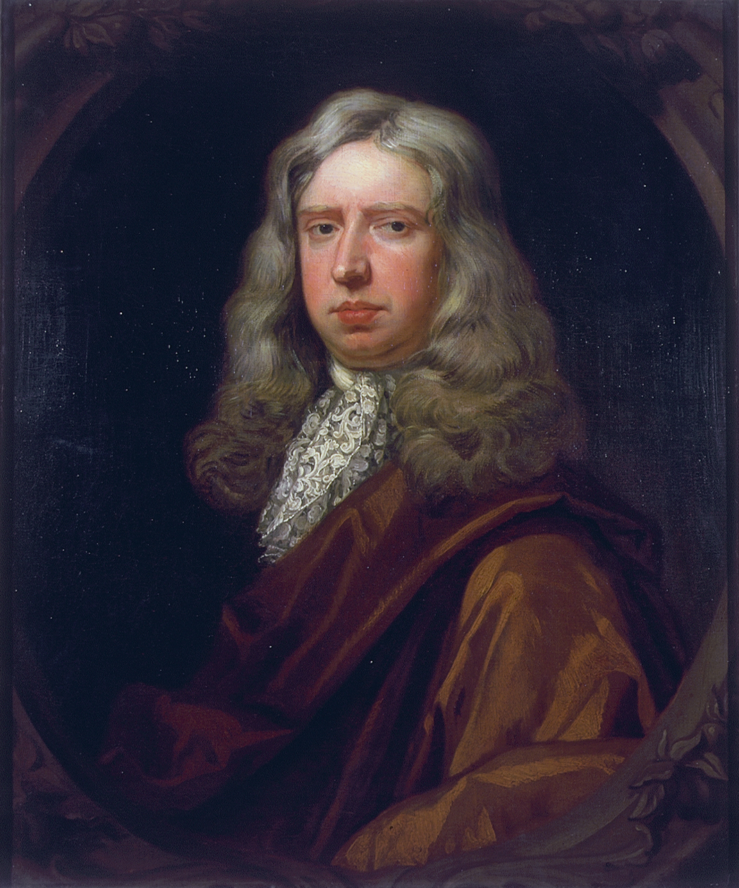 Portrait of William Hewer, on canvas, by the English artist Sir Godfrey Kneller. 762 mm x 635 mm. The painting of Hewer was made at the same time as a portrait by Kneller of Hewer's longtime employer and friend Samuel Pepys. Both portraits remained in the possession of the Pepys family until they were acquired by the National Maritime Museum in 1931. Courtesy of the Caird Collection, National Maritime Museum, Greenwich, London.